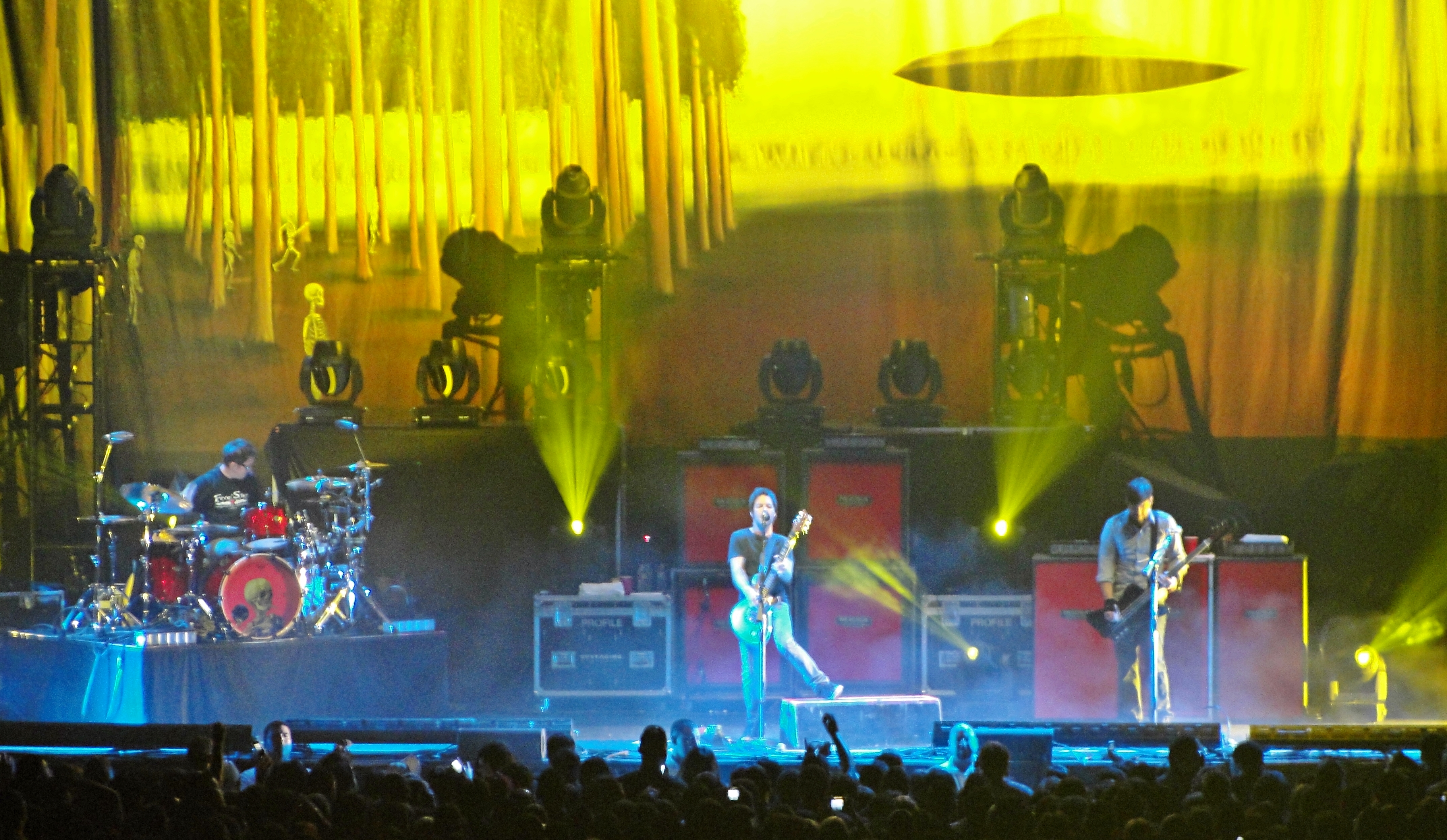 Chevelle live at the LEC in Laredo, Texas